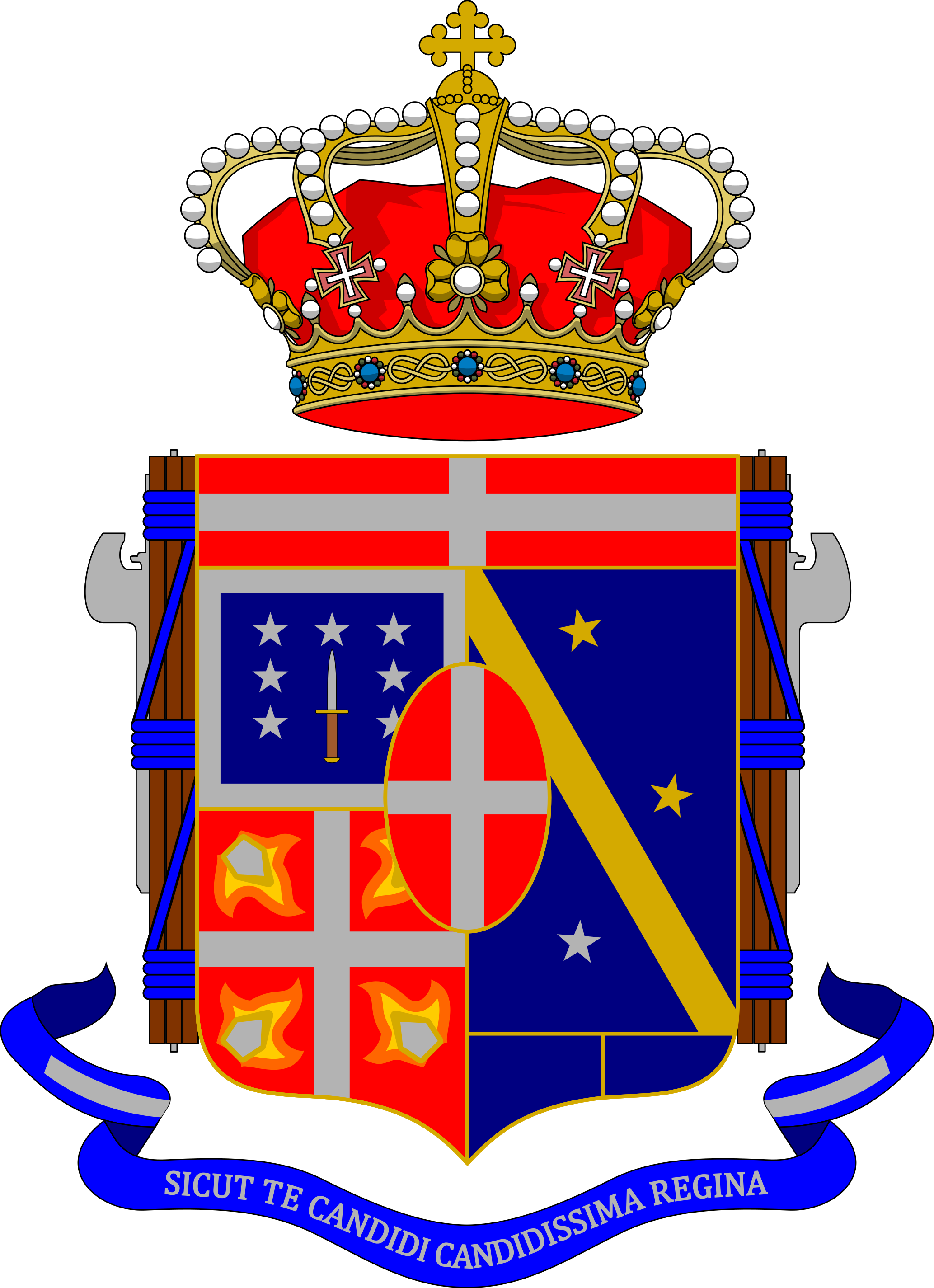 Coat of Arms of the 10th Infantry Regiment "Regina", Royal Italian Army, 1939